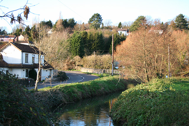 Nailsea: by Jacklands Bridge Here the Land Yeo, which has run in an embanked man-made channel on the south side of its valley most of the way from Wraxall Mill crosses over to run in a further man-made course on the north side of the valley or moorland. At Tickenham it powered a watermill which is probably of medieval origin; the watercourse may therefore be medieval too. The road connects Nailsea to Clevedon and the M5 Motorway, going south. Looking north west